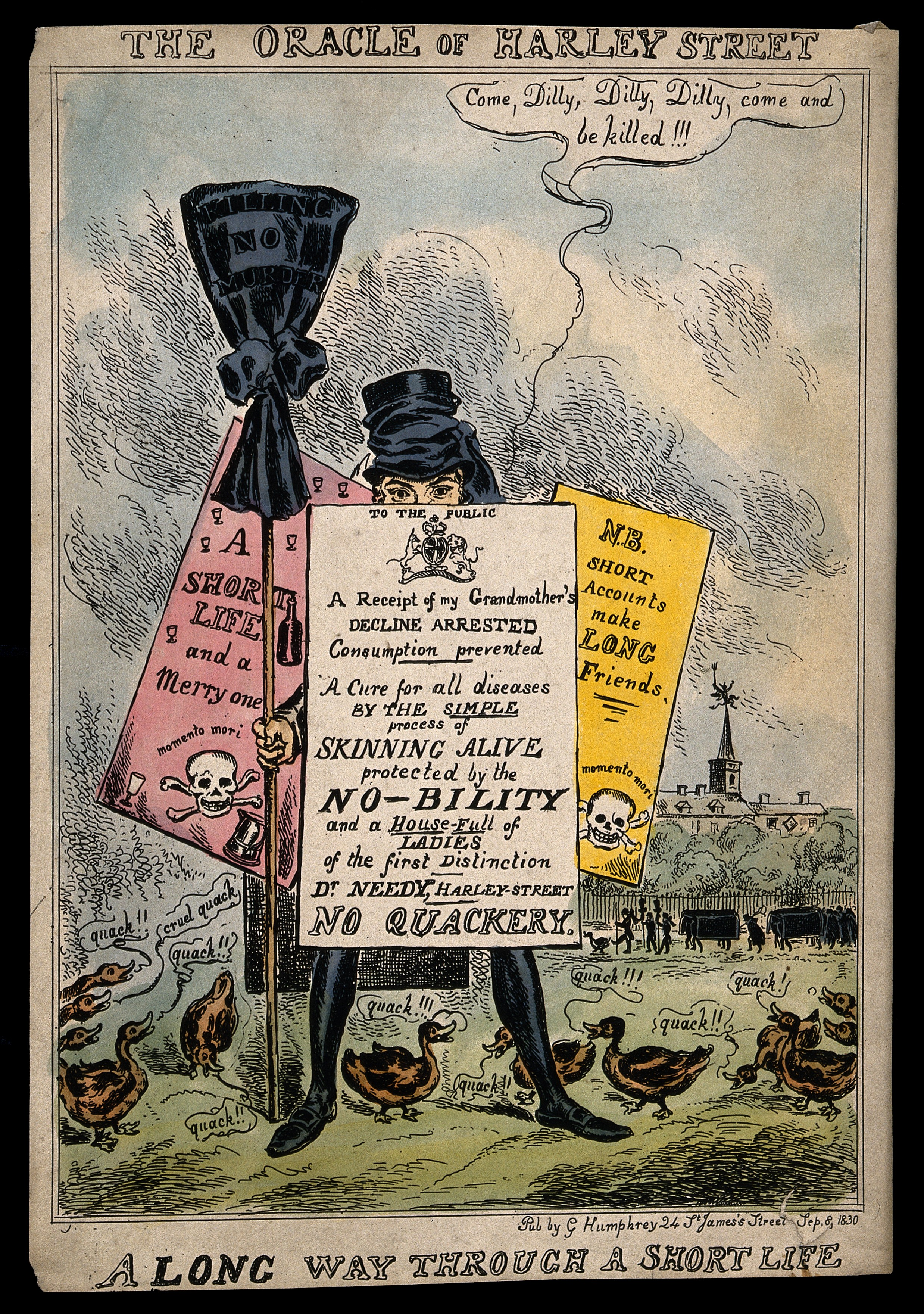 J. St. John Long (a dubious medical practitioner) dressed as a funeral mourner surrounded by ducks and placards which advertise several malpractice cases of his in which patients died. Coloured etching by Sharpshooter (?), 1830. Iconographic Collections Keywords: John St. John Long